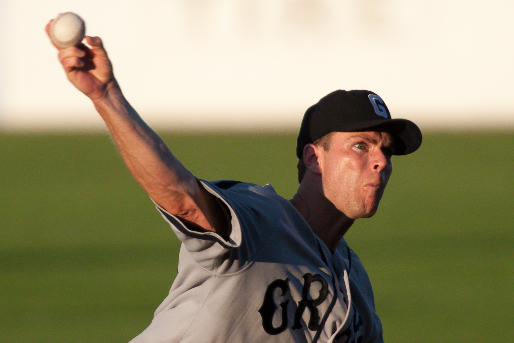 St. Paul Saints pitcher Mitch Wylie during a game against the Sioux Falls Canaries on June 23, 2009. Wylie pitched six innings, giving up just three runs, all in the first two innings, while striking out six batters. Wylie improved his record to 5-2 with the win.